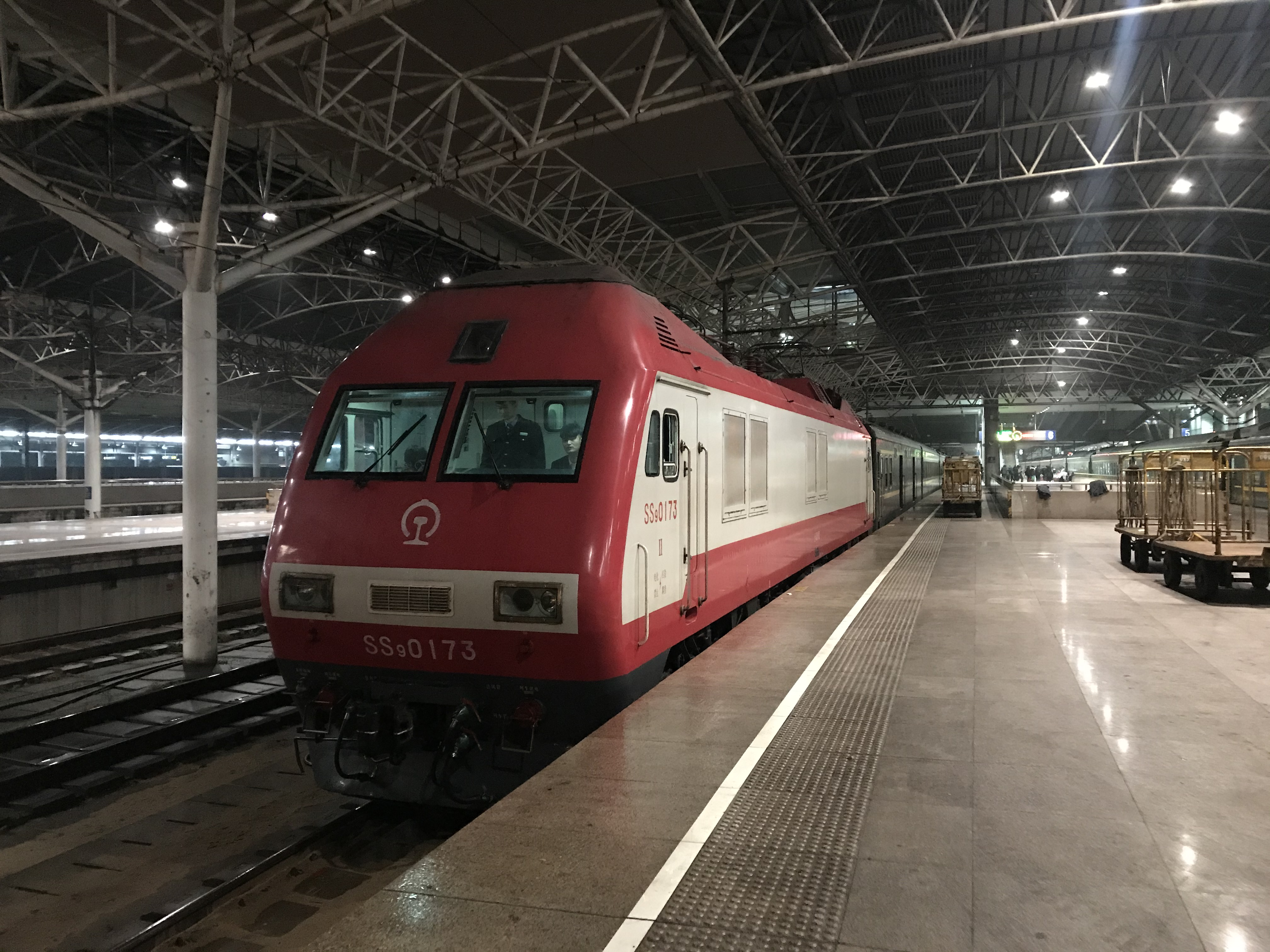 Hauled by a rare SS9 loco